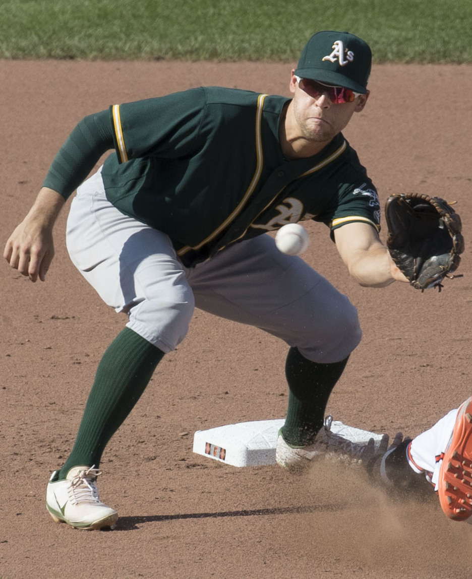 A's at Orioles 8/23/17